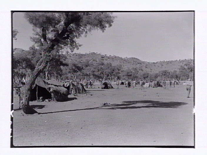 Jay Creek, west of Alice Springs, Northern Territory, Australia